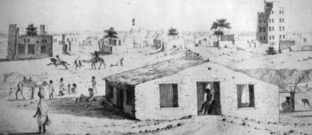 Sketch of Sennar in 1821